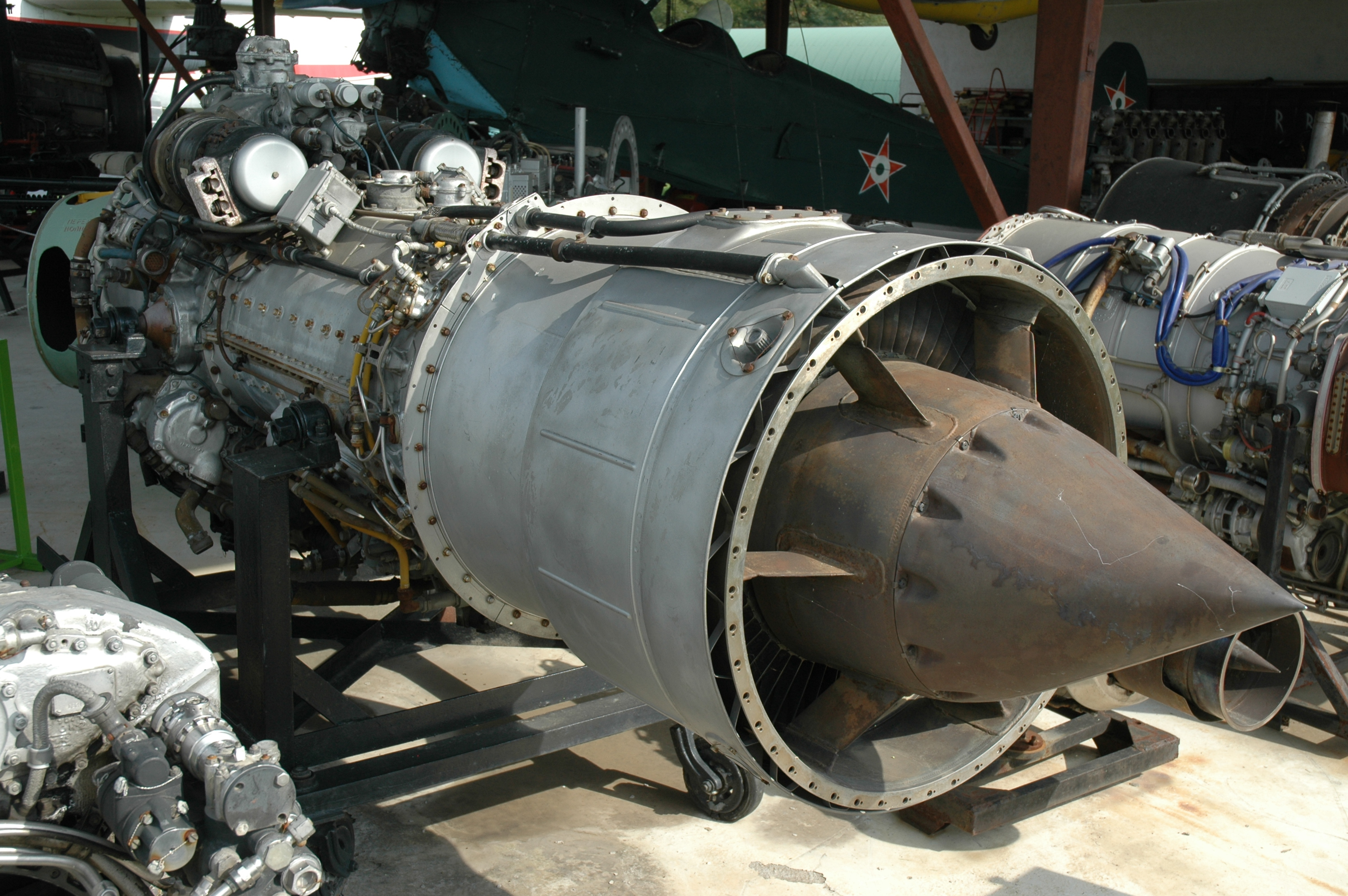 Ivchenko AI-20M Soviet turboprop engine (displayed at the Museum of Hungarian Aviation, Szolnok)